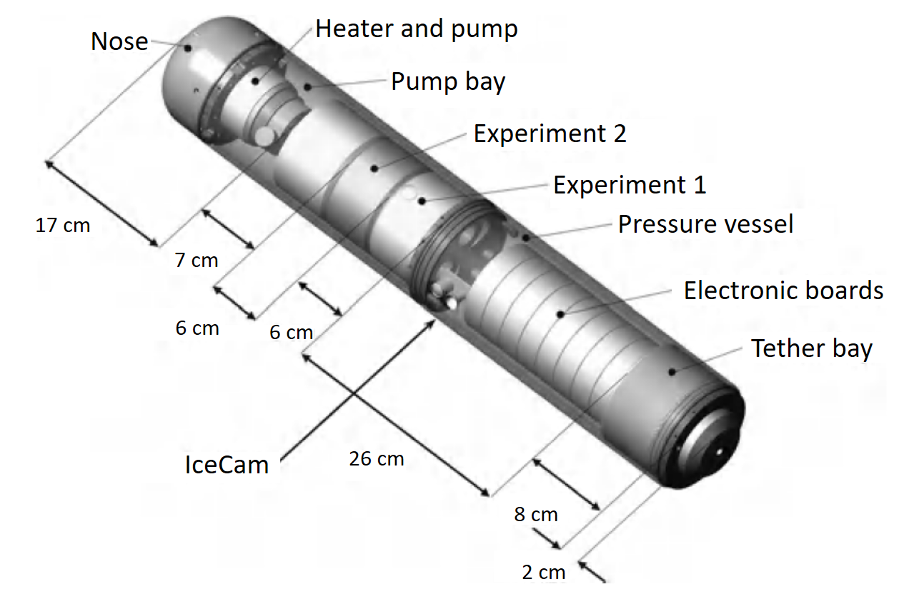 Design for a cryobot; it was never fully built to this design but a partial prototype was completed in 2001.